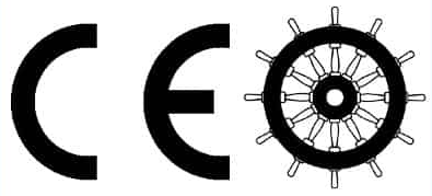 CE marking indicating compliance with European standards, and wheel steering as defined in European Union Directive 2014/90/EU published in the Official Journal of the European Union on 28 August 2014, attesting to marine equipment that can be installed in a ship sailing in European Union waters.